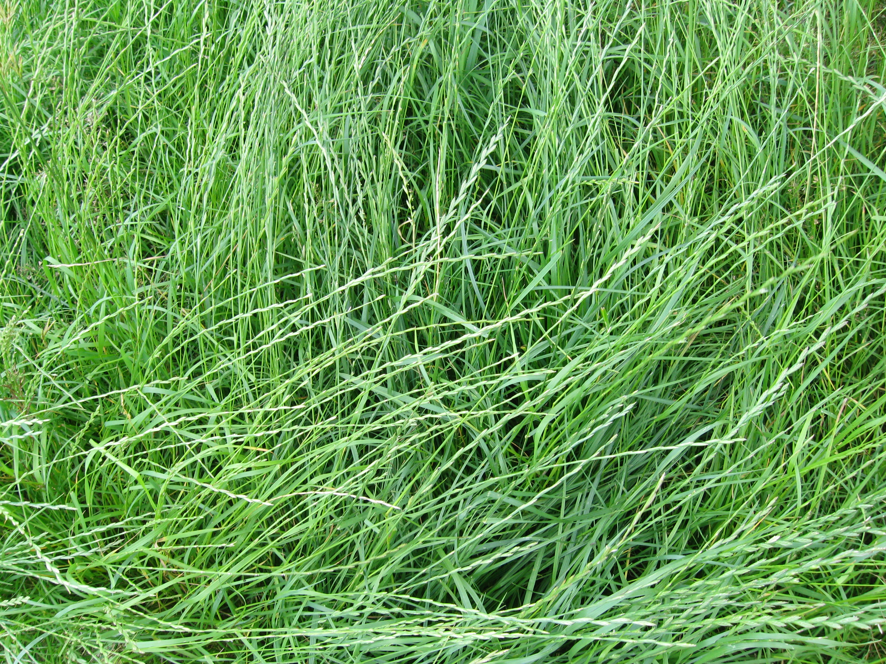 Lolium perenne plants